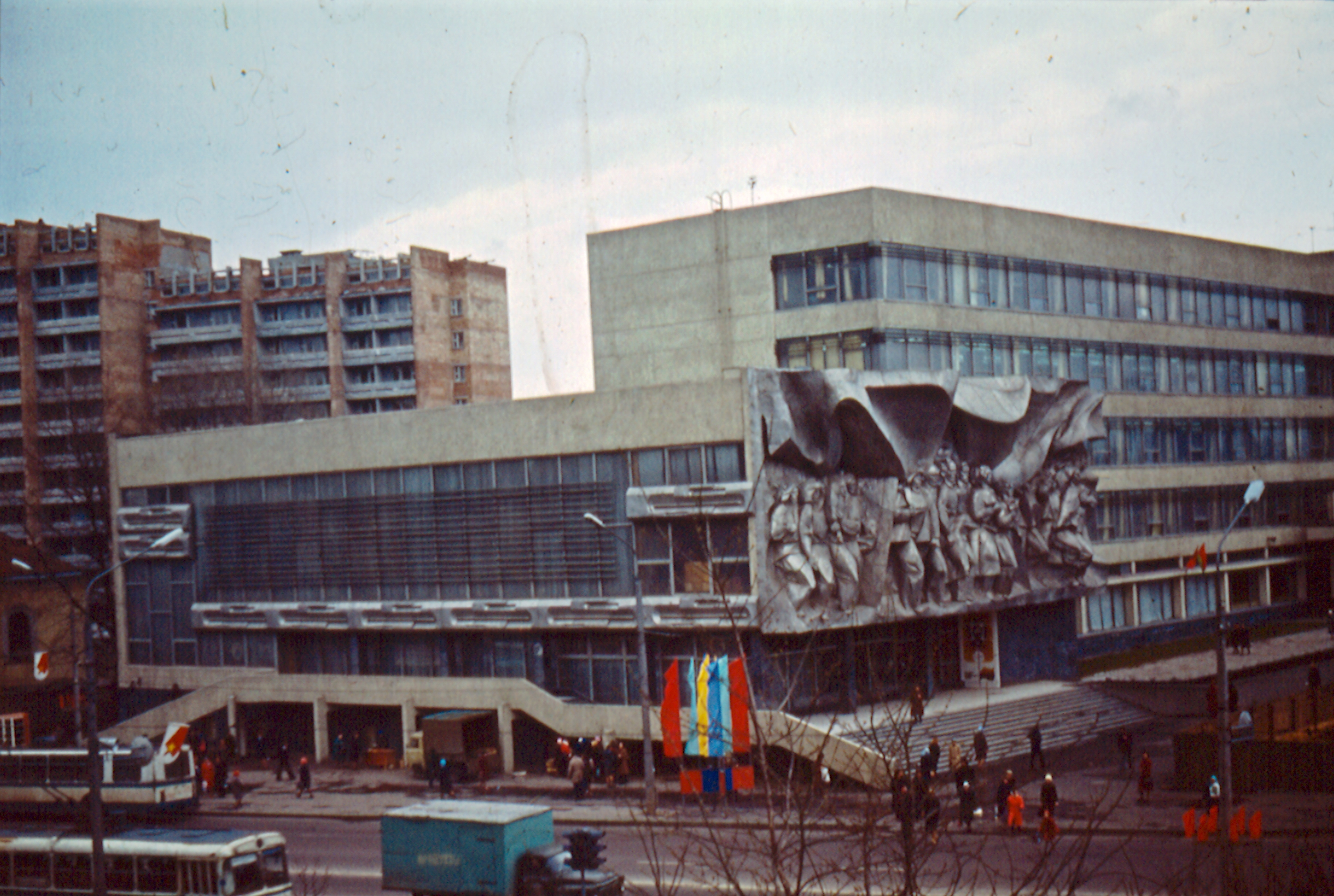 Niamiha street in Minsk, Belorussian SSR, 1981.